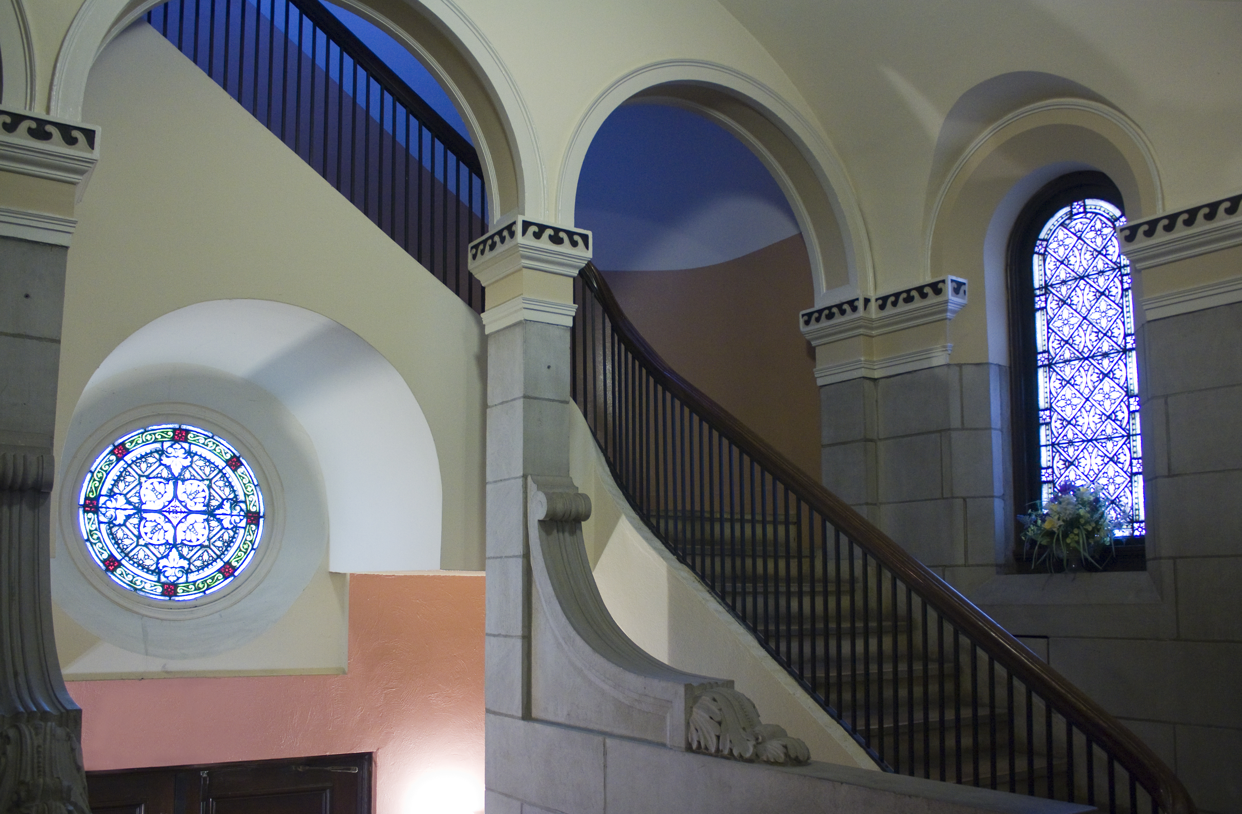 St. Elizabeth of Hungary Church in Cleveland, Ohio